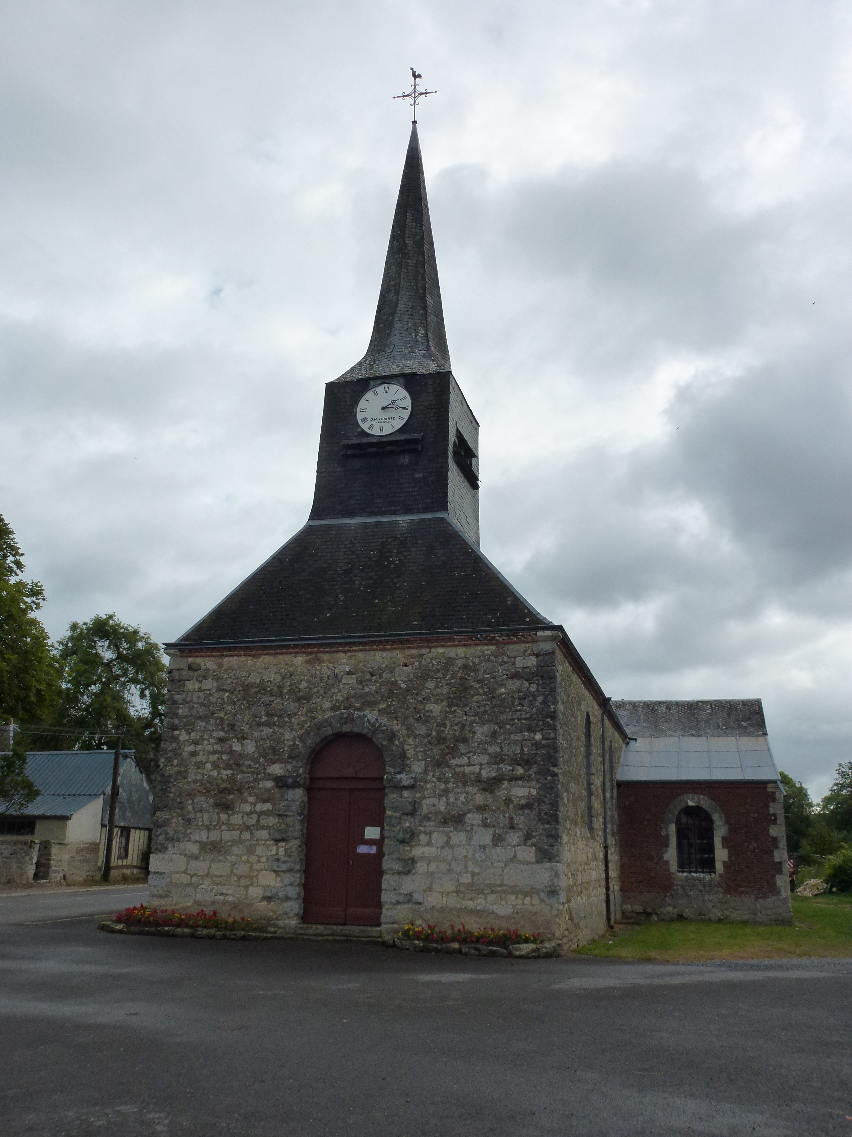 La Neuville-lès-Wasigny (Ardennes) église Saint-Thimothée